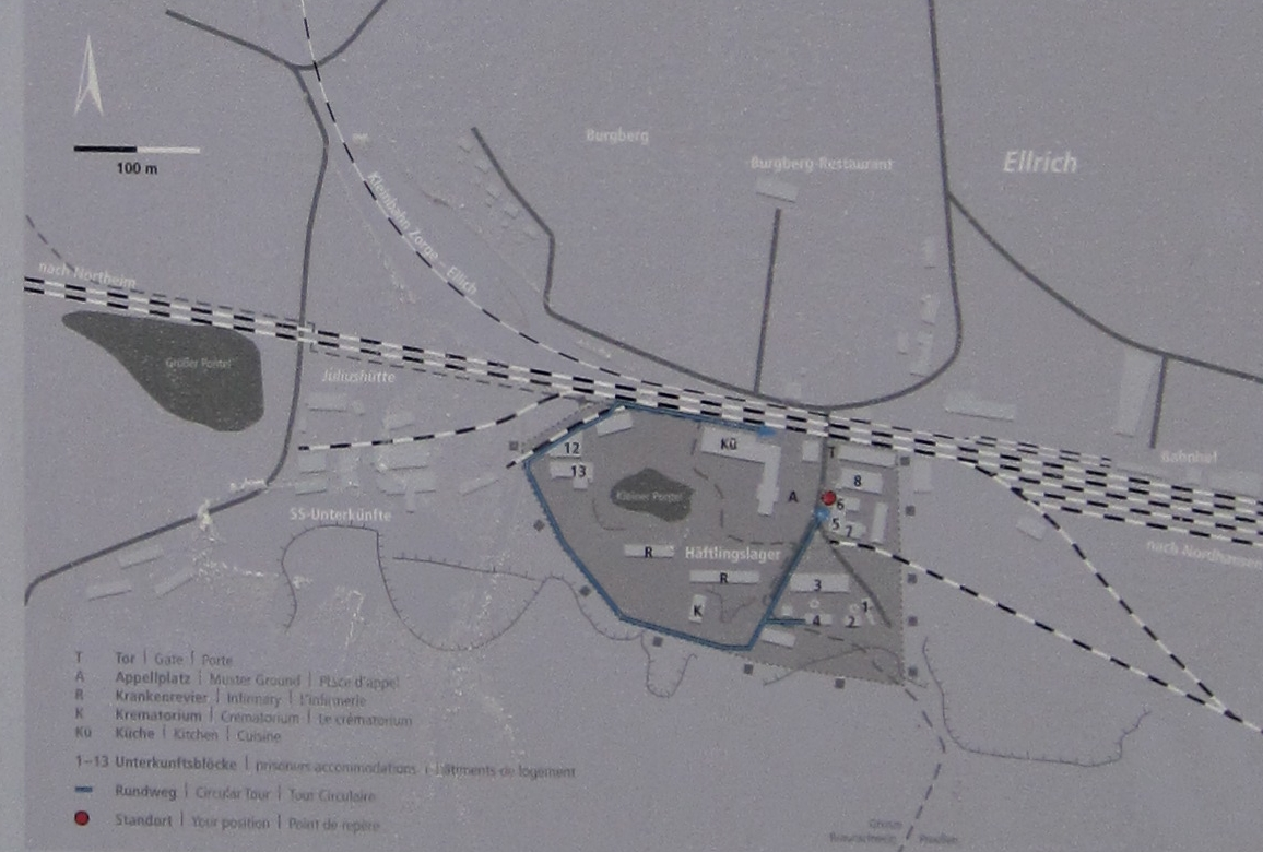 Map of Ellrich-Juliushütte ("Mittelbau II") concentration camp Ellrich, Thuringia, Germany.